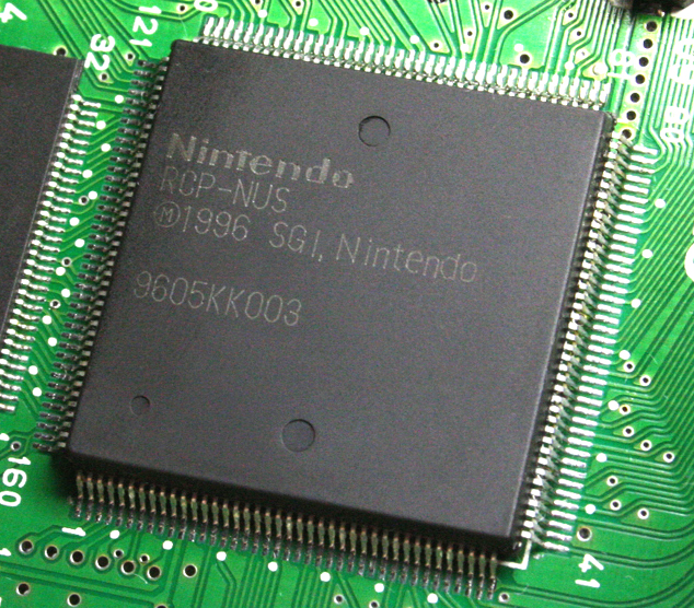 RCP-NUS(R3000 custom) in Nintendo64(NUS-001(JPN),PCB:NUS-CPU-01).